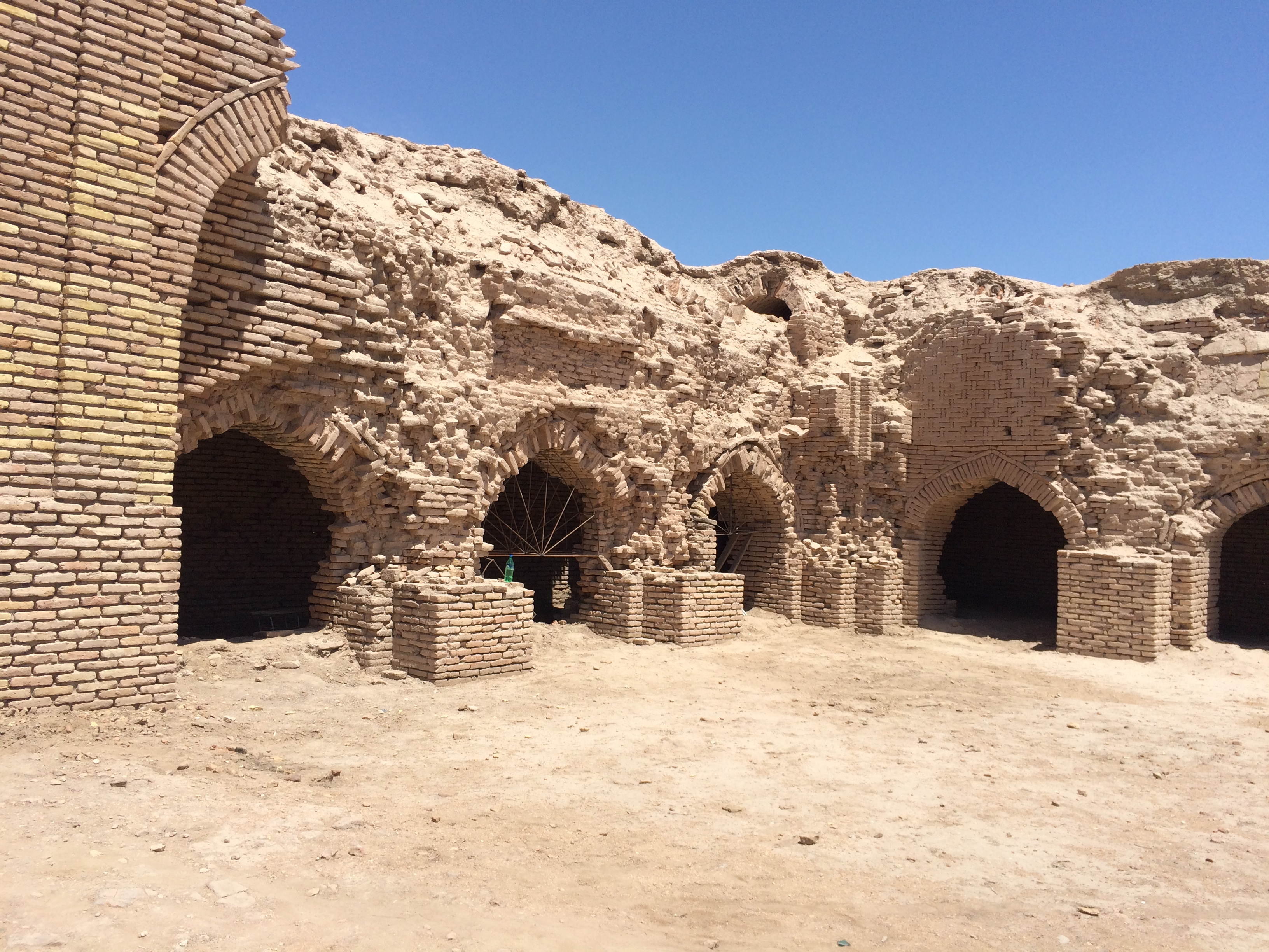 Interior arcade and chambers of the Dayahatyn caravansaray, Lebap velayat, Turkmenistan